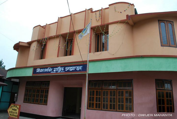 Binapani Natya Mandir